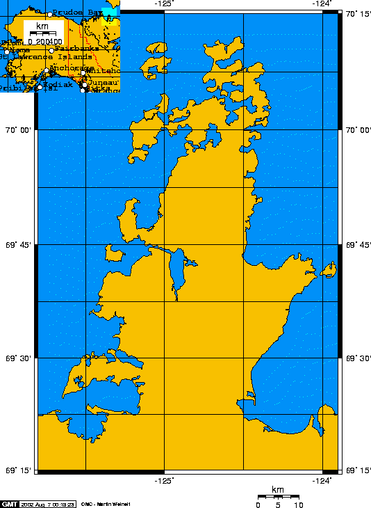 Image of the Parry Peninsula, created using public domain Online Map Creation tool.